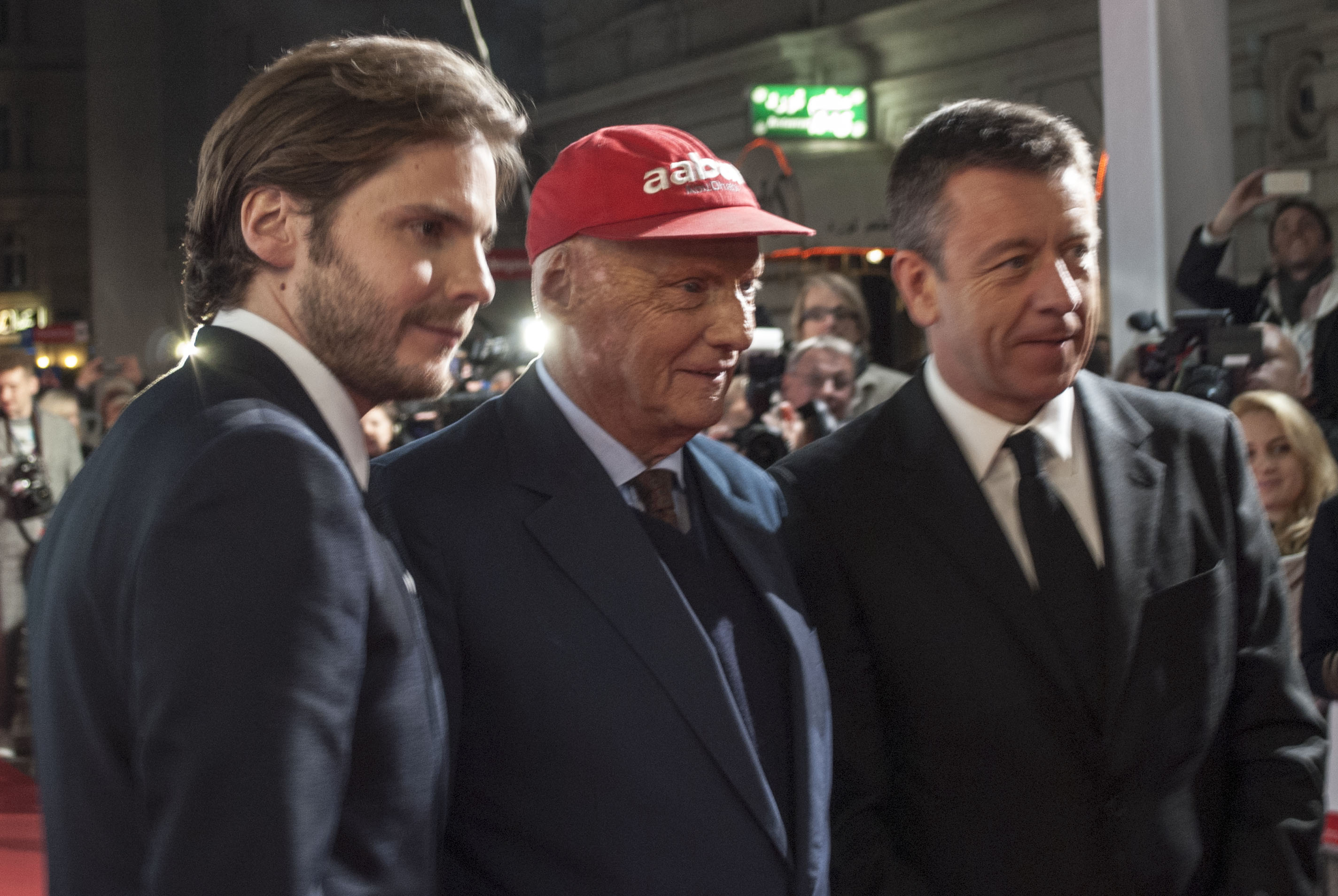 Daniel Brühl, Niki Lauda and Peter Morgan at the premiere of Rush in Vienna, Austria. 30.09.2013